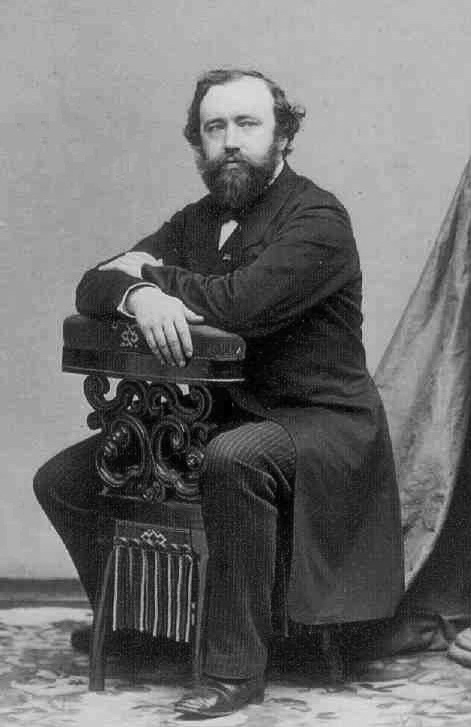 Adolphe Sax